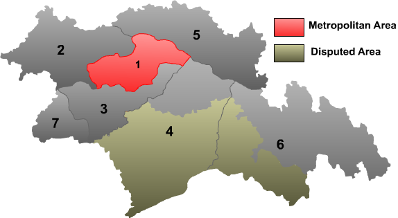 Map of Nyingchi prefecture in Xizang Aut. Pref.